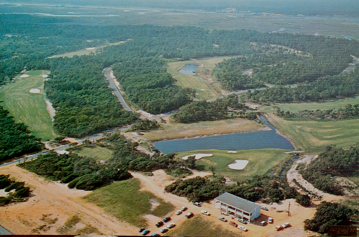 Photo of a canvas photo reproduction of a post card